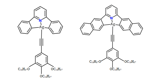 Figure 1